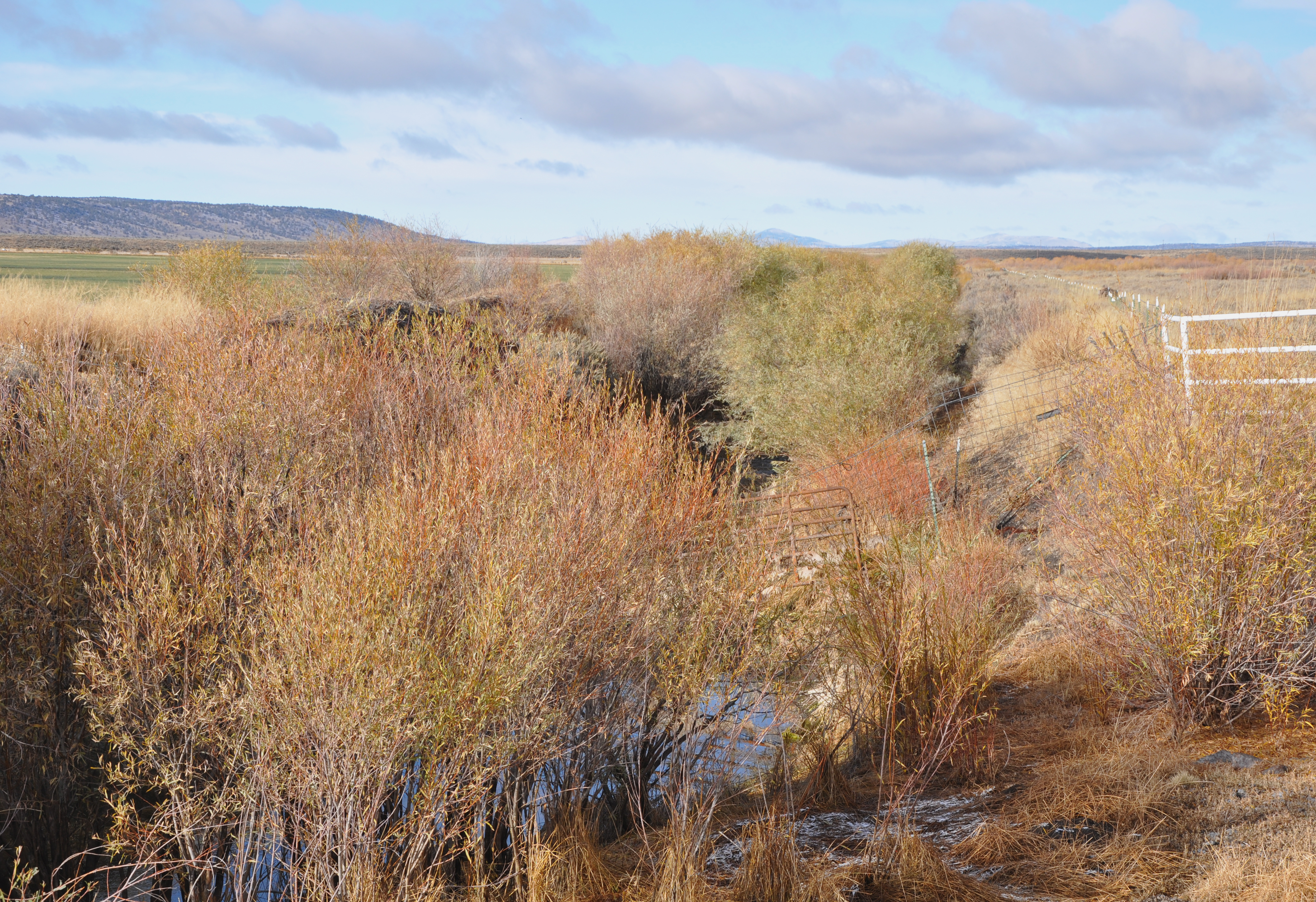 Silver Creek crosses fields north of Riley in the U.S. state of Oregon.